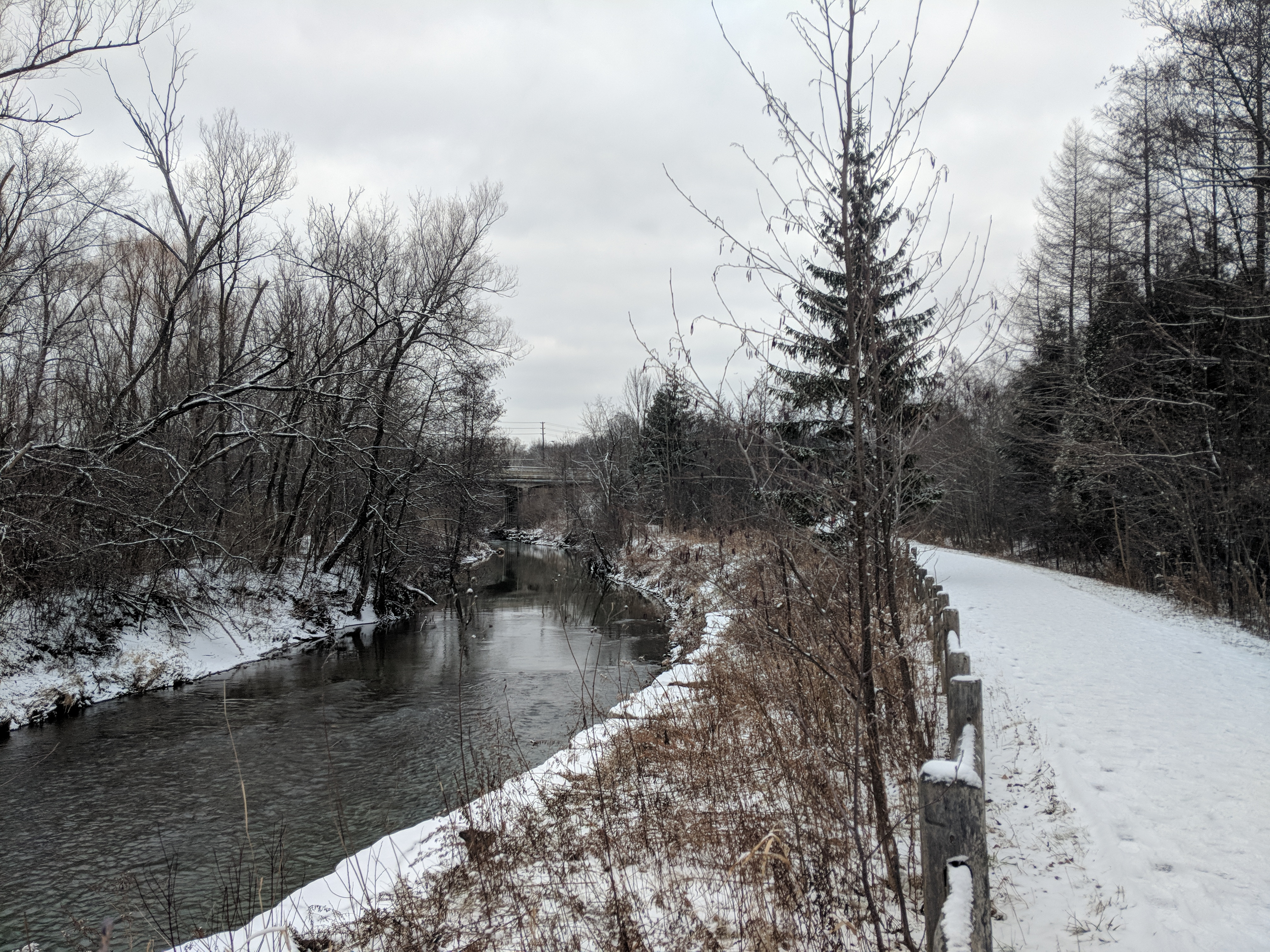 Northbound on East Don Parkland Trail near Finch Avenue.